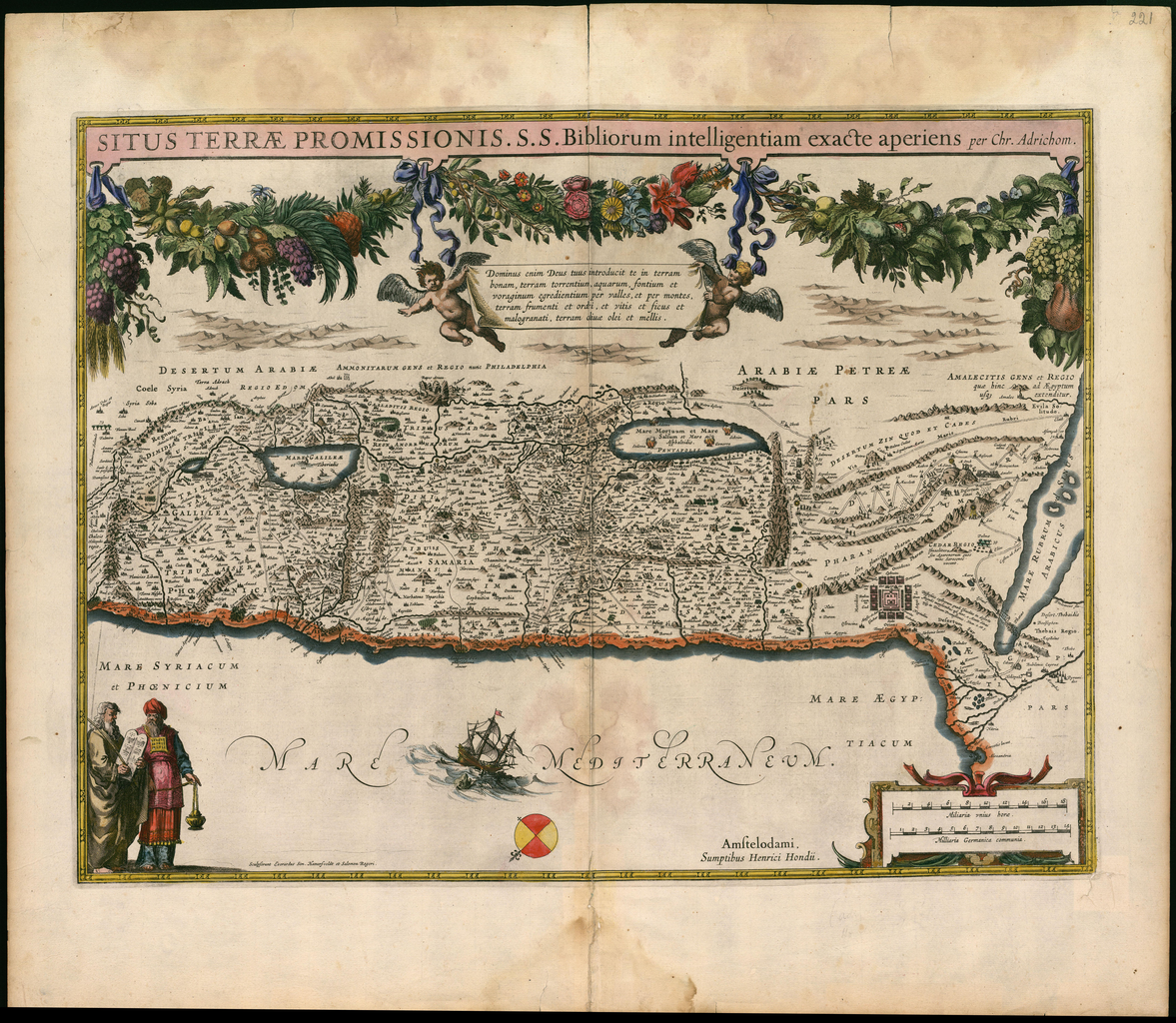 This copperplate engraving of the Holy Land is the first in a series of reprints of a map by Christiaan van Adrichem (1533-85) by Dutch publishers in the 17th century. Adrichem was a Roman Catholic priest and biblical scholar, and the map depicts the Holy Land as Adrichem conceived it, based on his study of the scriptures. The map was printed in Amsterdam in 1633 by Henricus Hondius (1597-1651), and was included in a new edition of the Atlas ou representation du monde universel (Atlas, or universal representation of the world) first published by Jodocus Hondius (1563-1612) and Gerhard Mercator (1512-94).